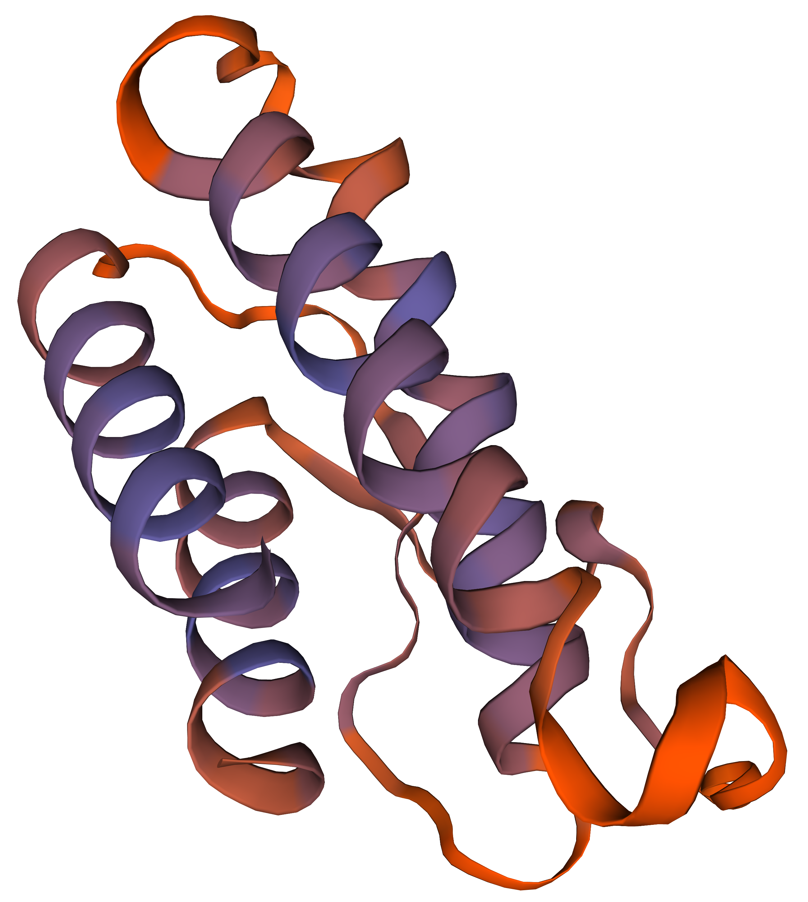 3D Structure of interleukin-2